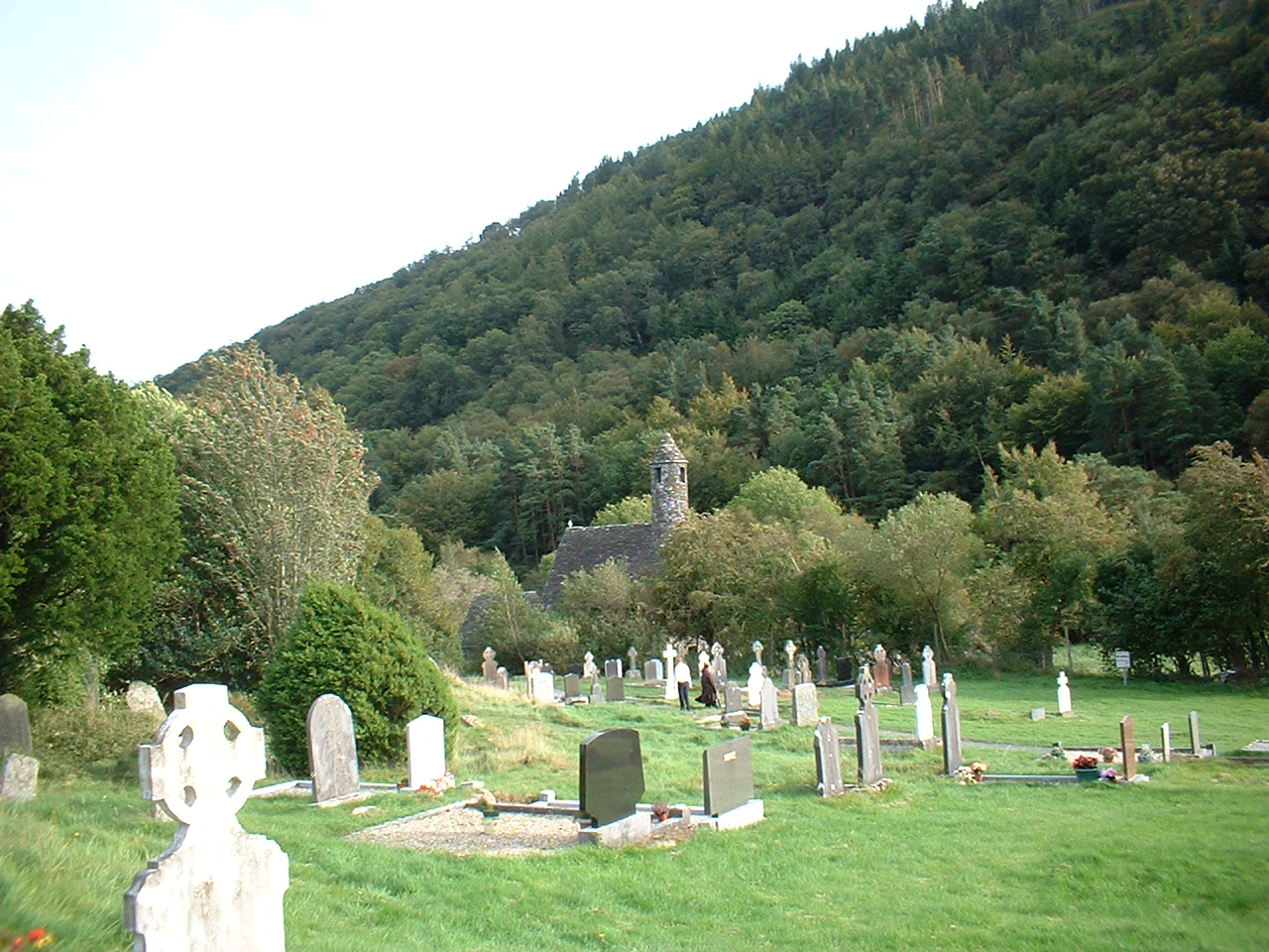 Abbey of Glendalough